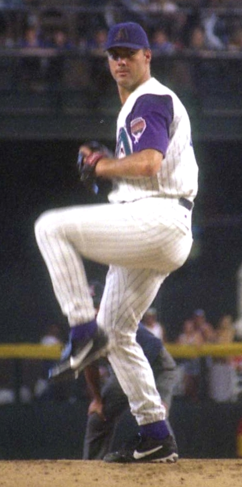 Andy Benes pitching for the Arizona Diamondbacks on Sunday, June 6, 1999.